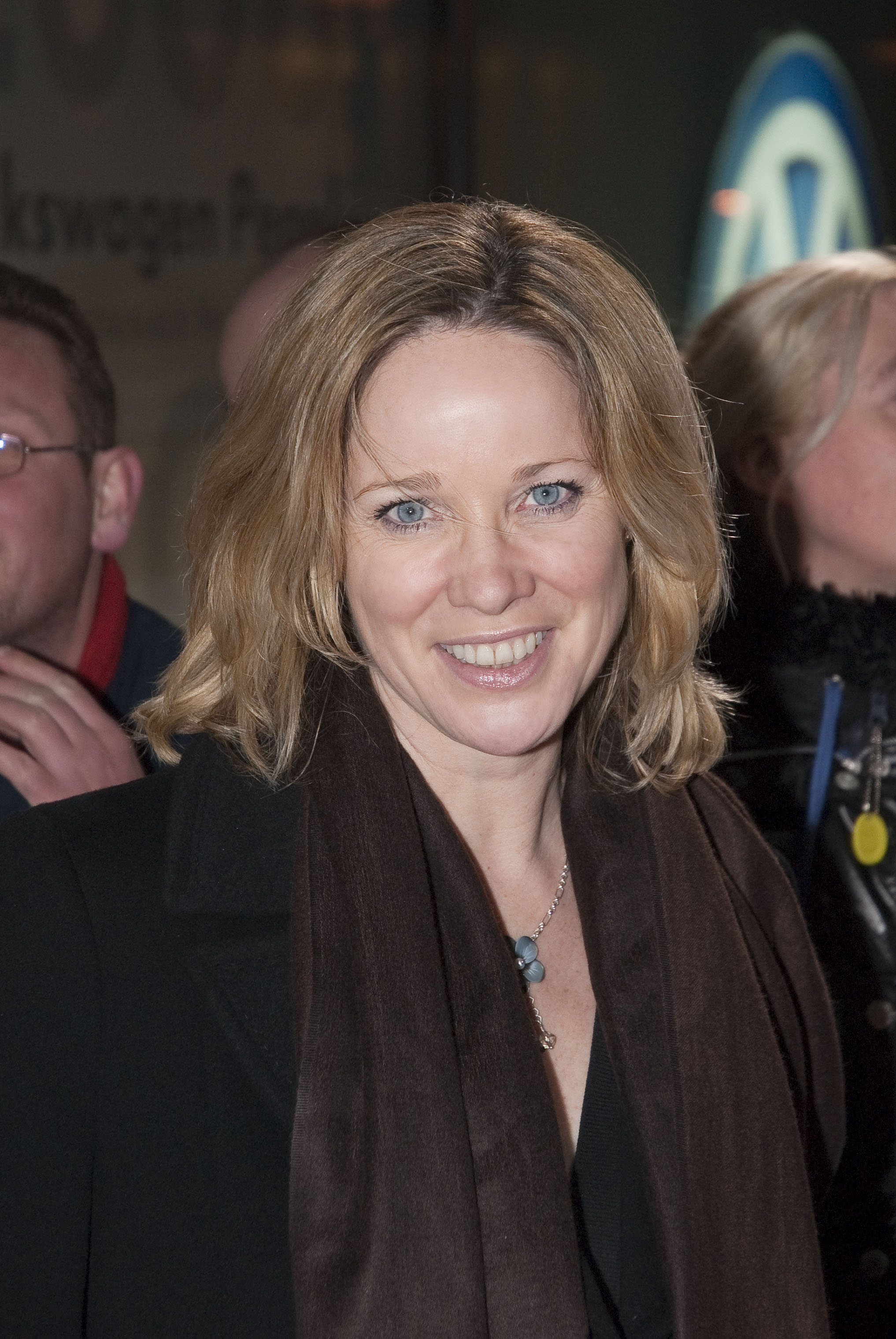 Ann-Kathrin Kramer, German actress Volkswagen People’s Night 2008